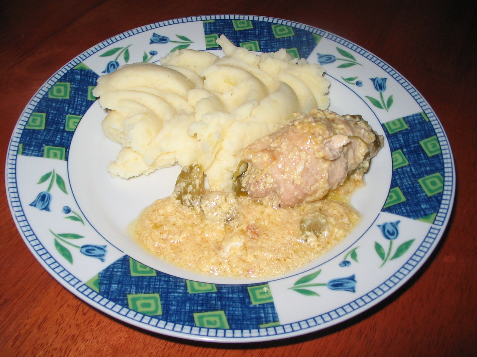 Zavyvantsi or kruchenyky (ukrainian zrazy, meat roulade) served with mashed potato and mushroom sauce